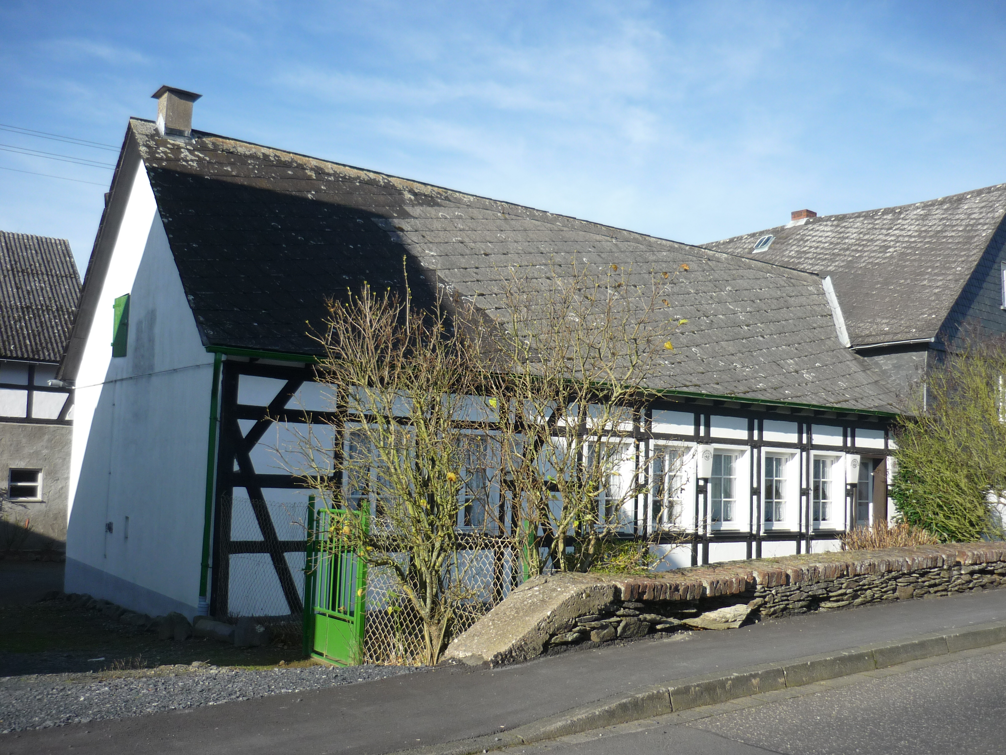 Reinhardshof, Gieleroth, Westerwald